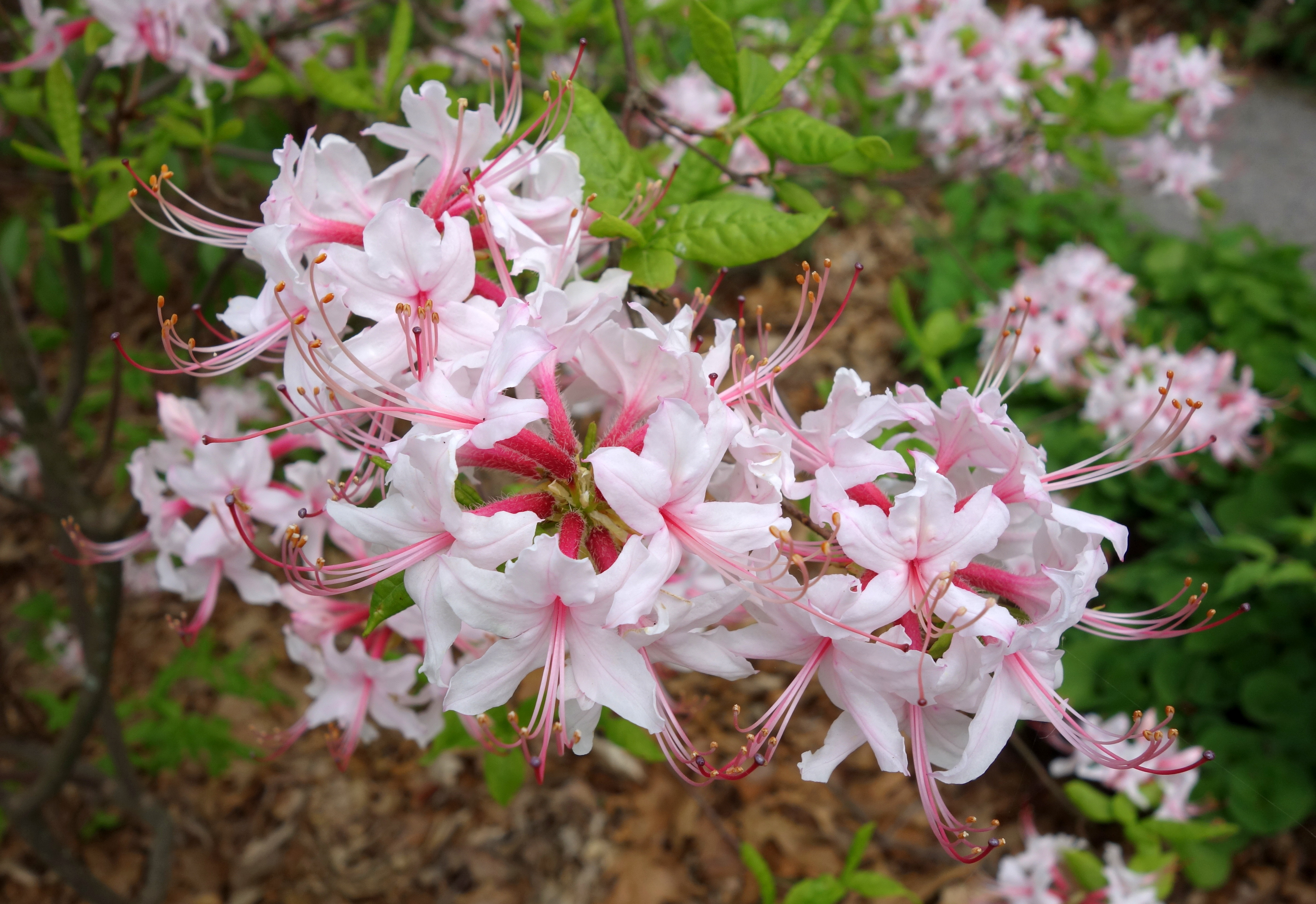 Botanical specimen in Jenkins Arboretum, 631 Berwyn Baptist Road, Devon, Pennsylvania, USA.